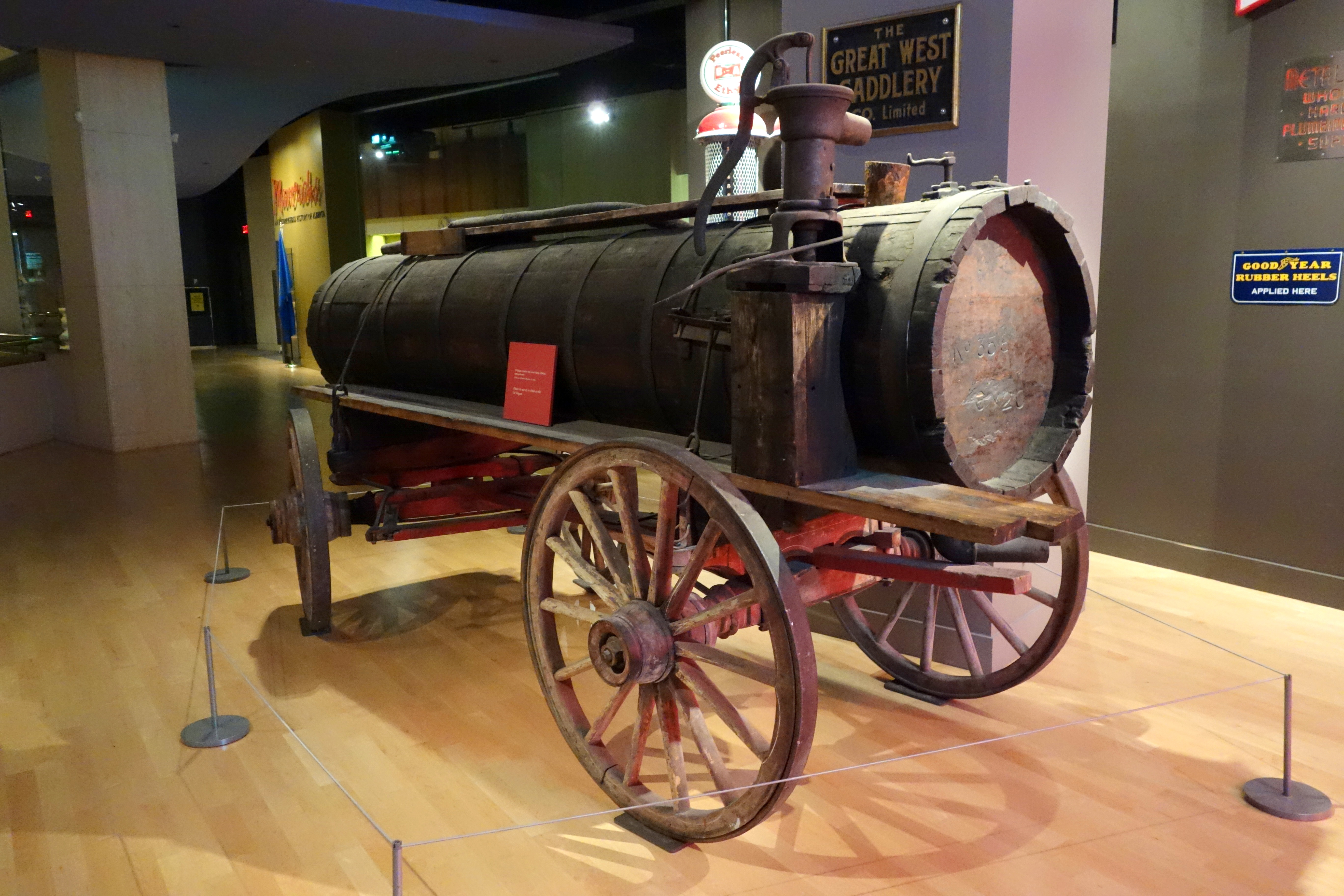 Exhibit in the Glenbow Museum, 130 9th Ave S.E., Calgary, Alberta, Canada. This work is old enough so that it is in the public domain.